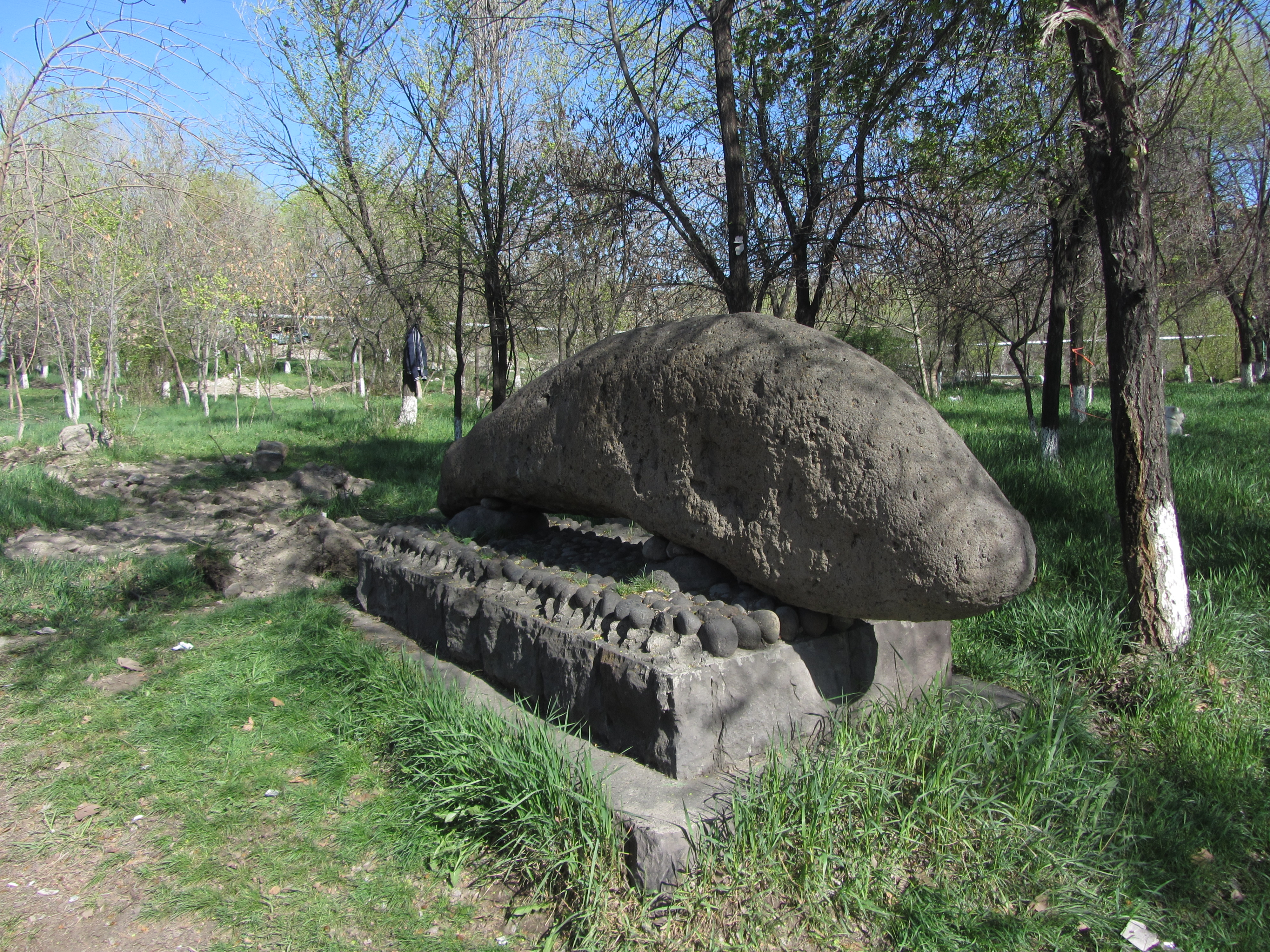 Dragonstone from Geghama mountains 8/18